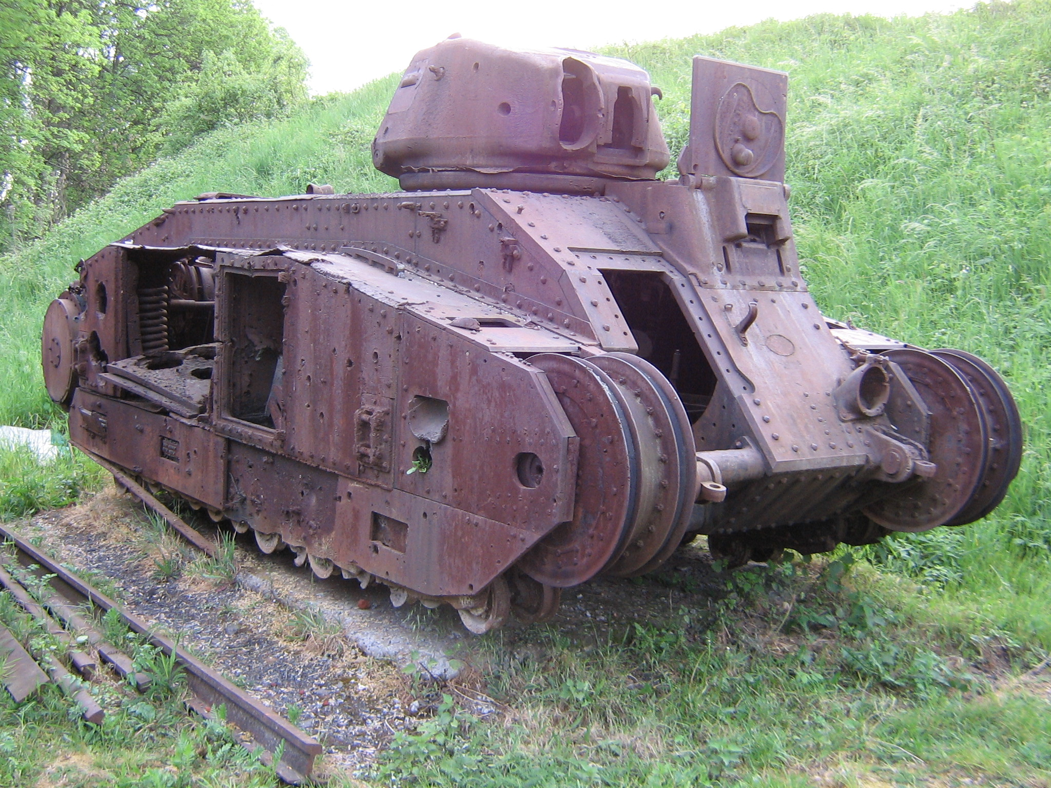 Char B1 bis at the Fort de Seclin, near Lille (France)